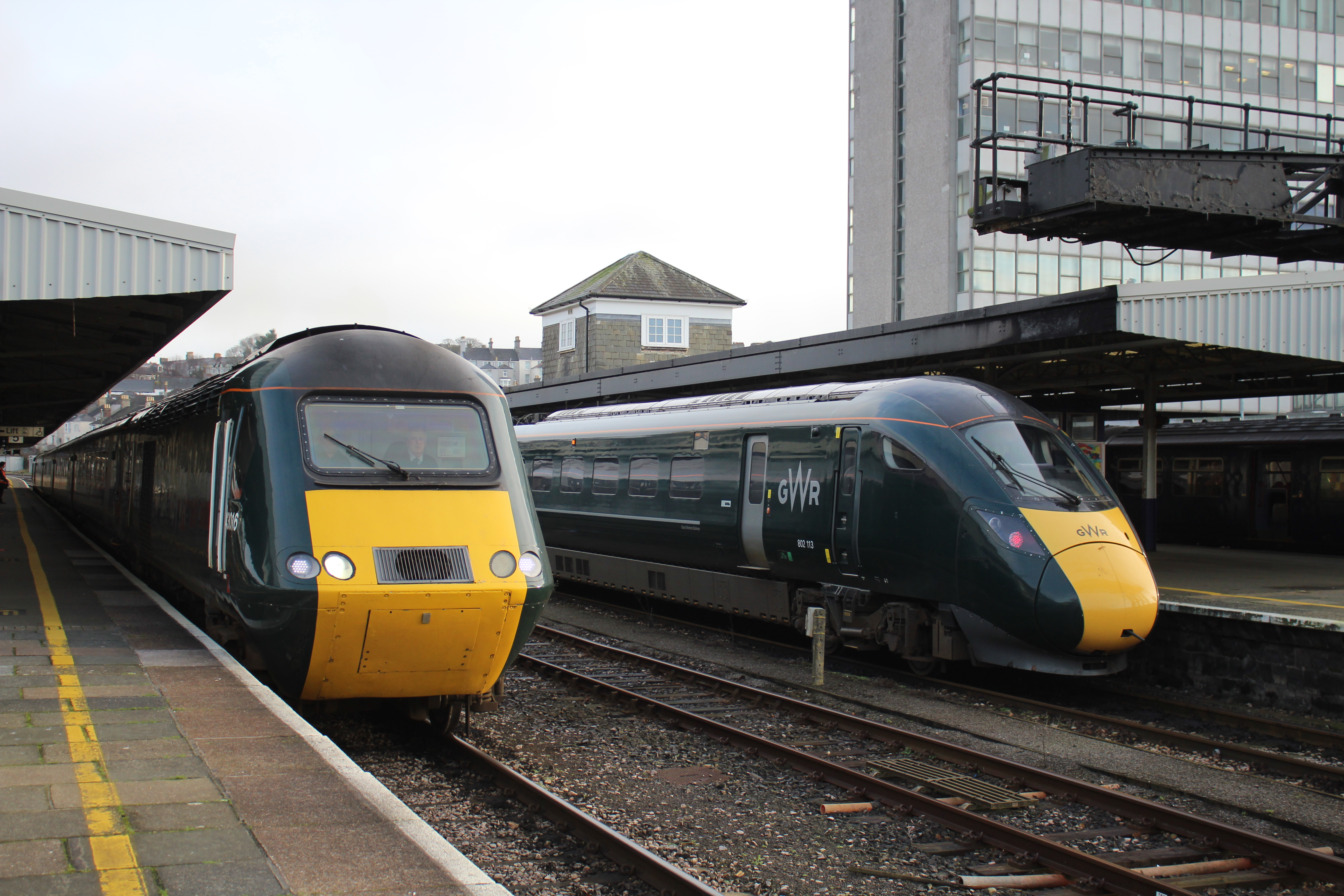 Plymouth: 43016 - 43093 departs with a Penzance service while 802113 had just arrived in from Penzance.